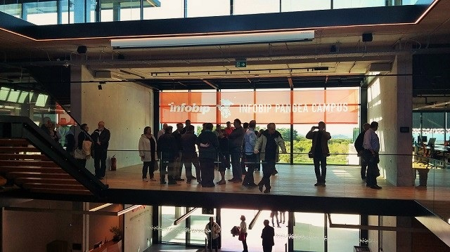 Infobip Campus main building. The Campus opened in September 2017